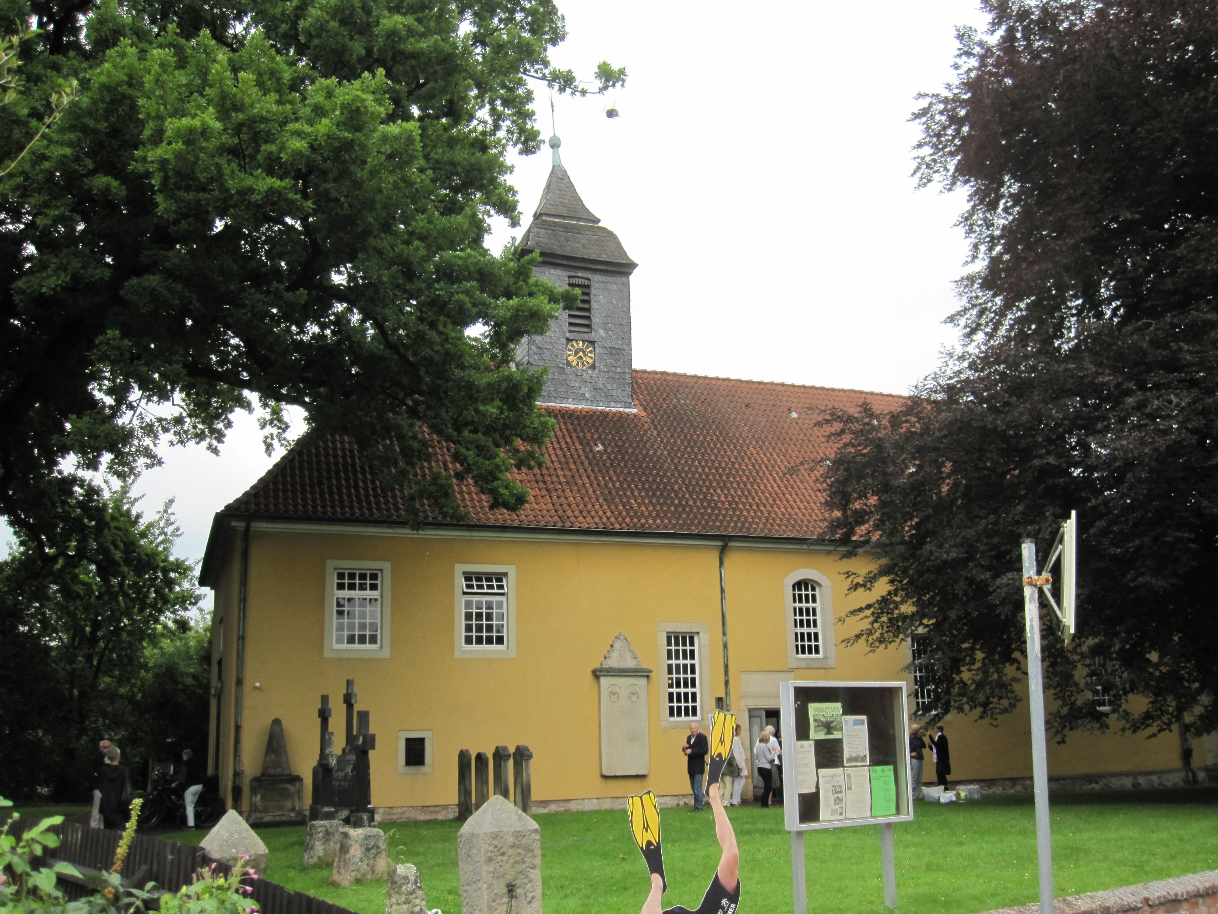 Lenthe, a small village, now part of Gehrden, Germany, with “Church of 10000 Knights”